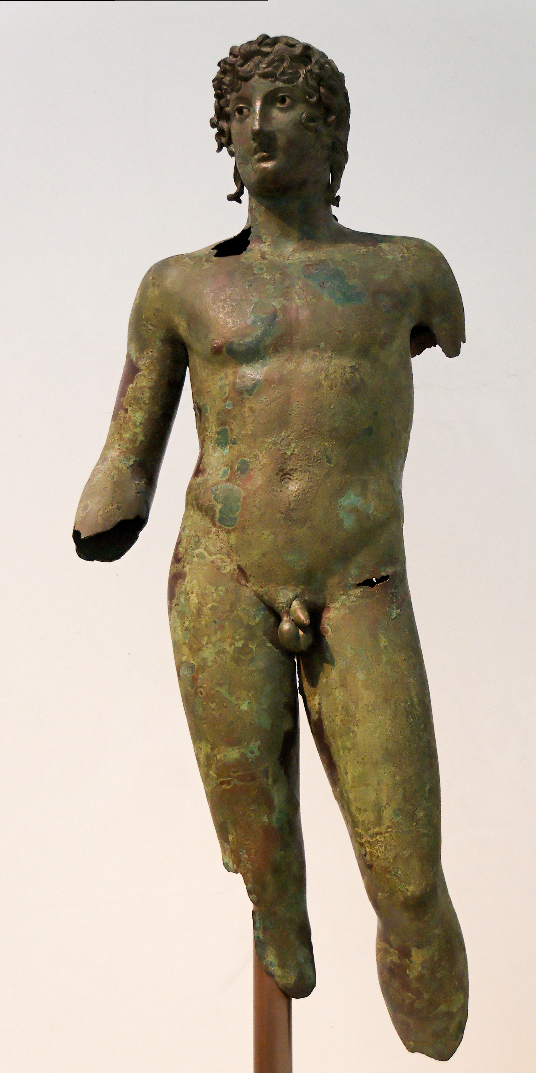 Statue of a young man. Bronze, Roman copy of the 1st century BC after a Greek original. From Ziphteh, near Tell Atrib (ancient Athribis), Egypt.